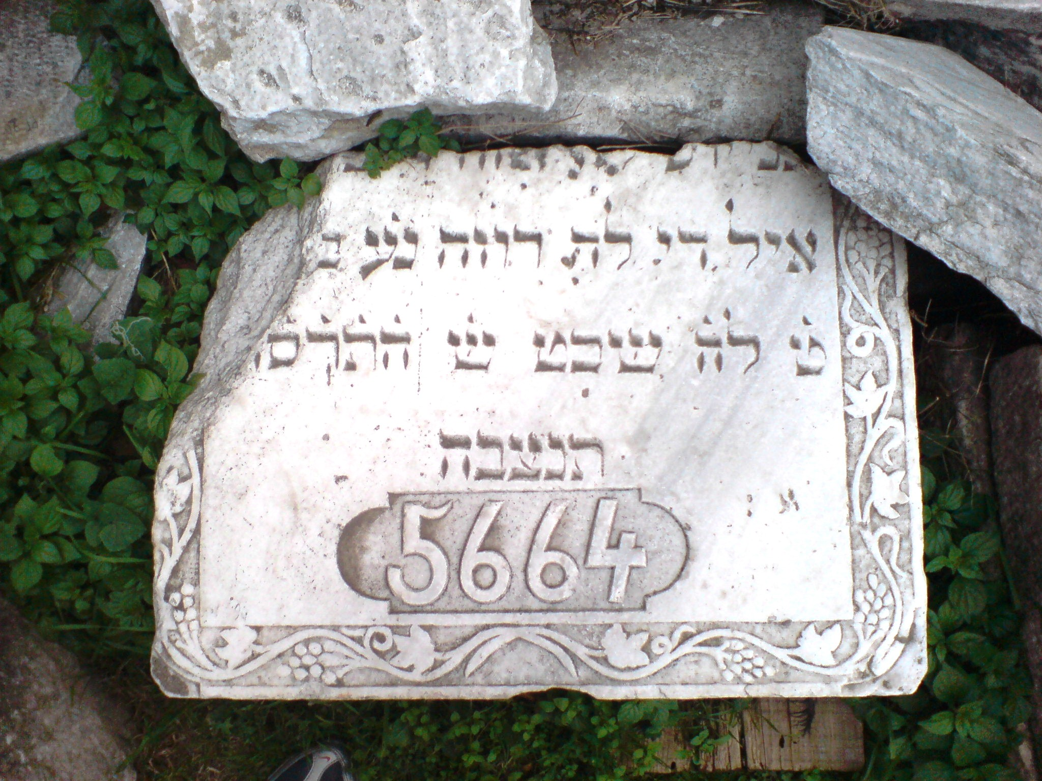 Rotunda yard, Thessaloniki: Jewish tomb remains - 5664 (Hebrew: ה 'תרס"ד, abbr. תרס"ד) is a Hebrew year that began in the evening of September 22, 1903 and ended September 9, 1904.